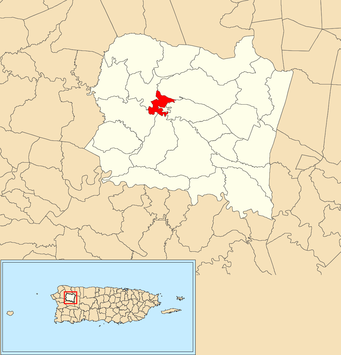 Bahomamey, San Sebastián, Puerto Rico locator map